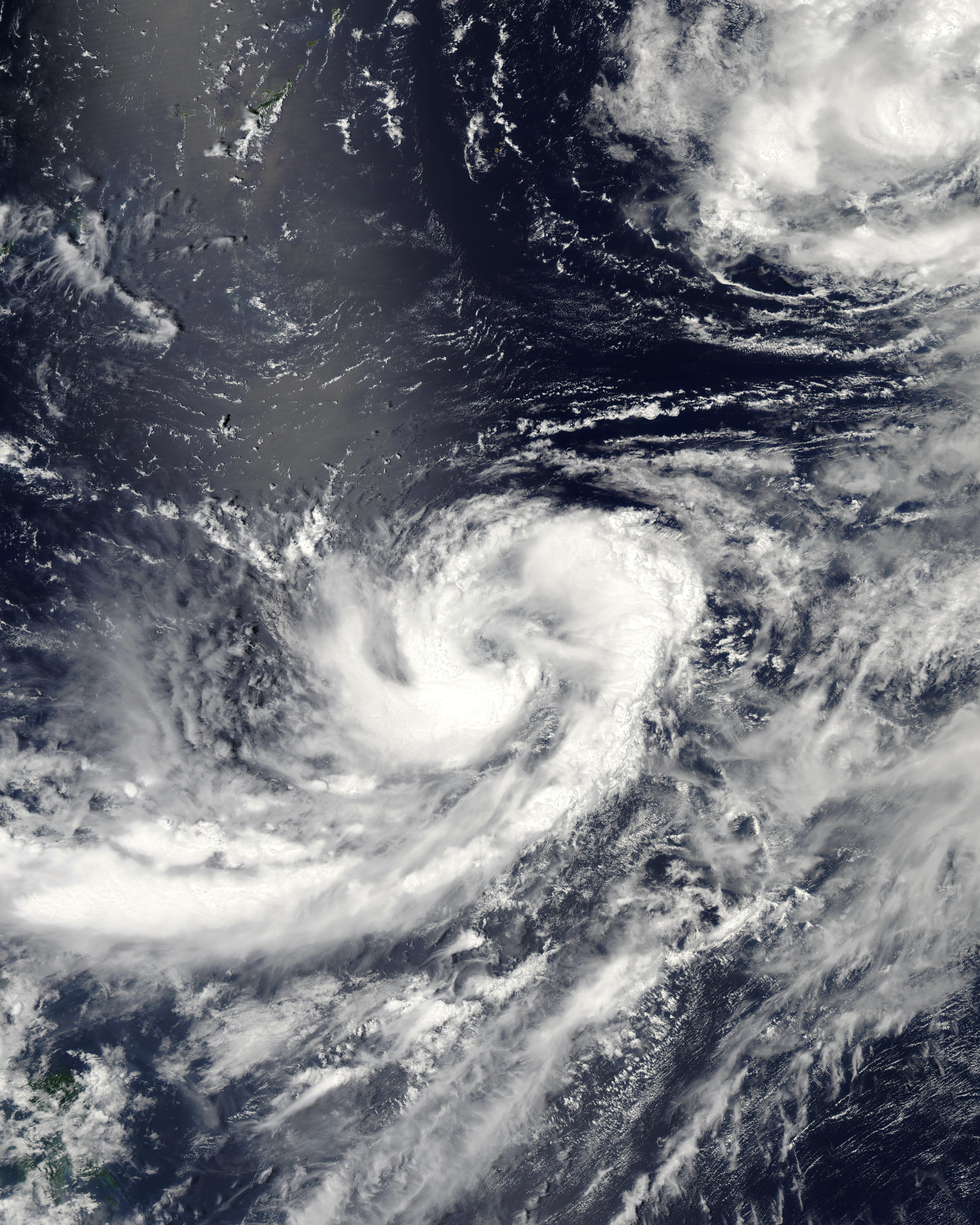 This image shows Tropical Storm Sonamu in the Pacific Ocean at 0435 UTC on August 14, 2006